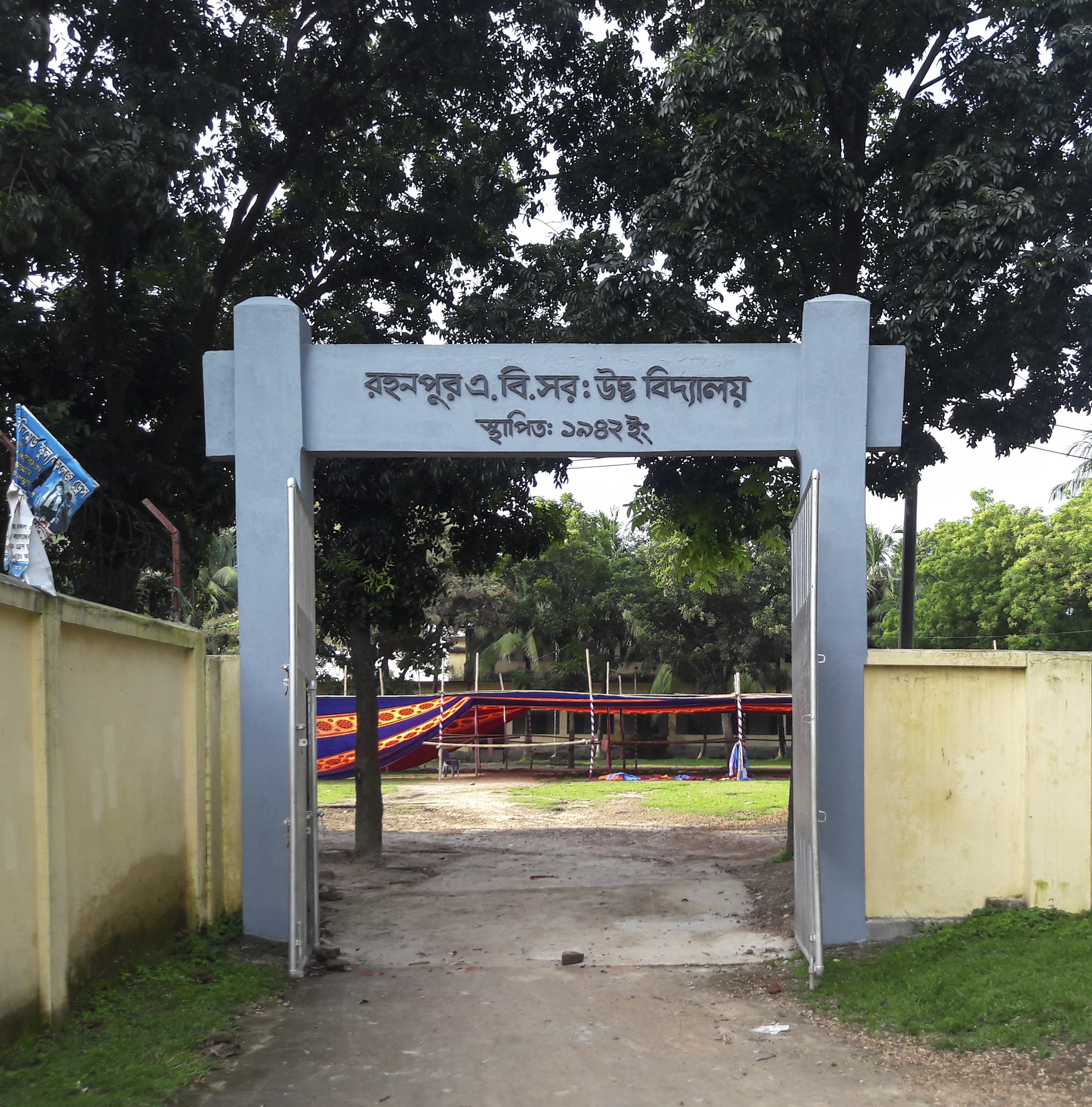 Rohanpur A. B. Government High School is one of the top school in chapainawabgonj District. It is situate in ronapur near punarvaba river.